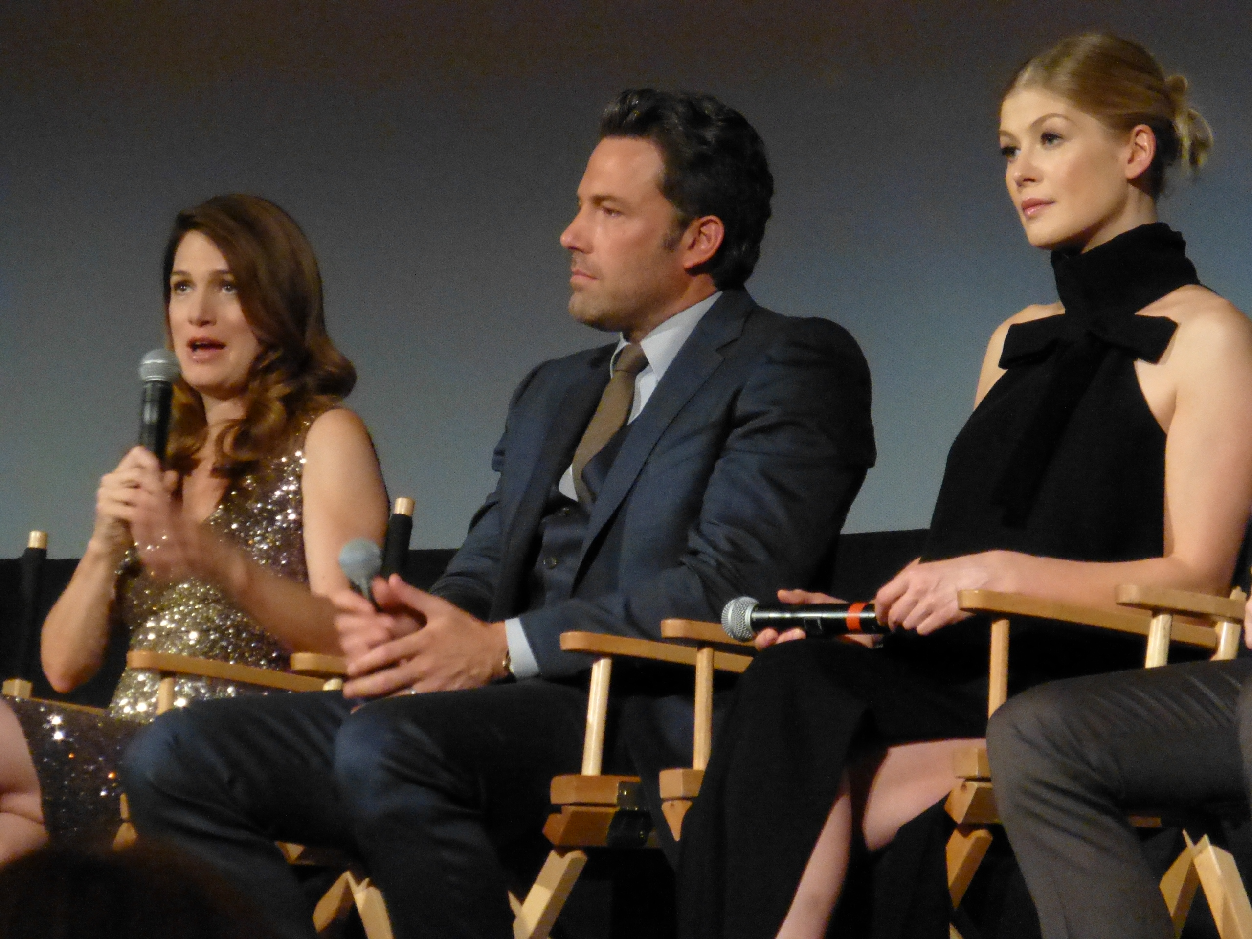 Gone Girl Premiere at the 52nd New York Film Festival, October 2014.